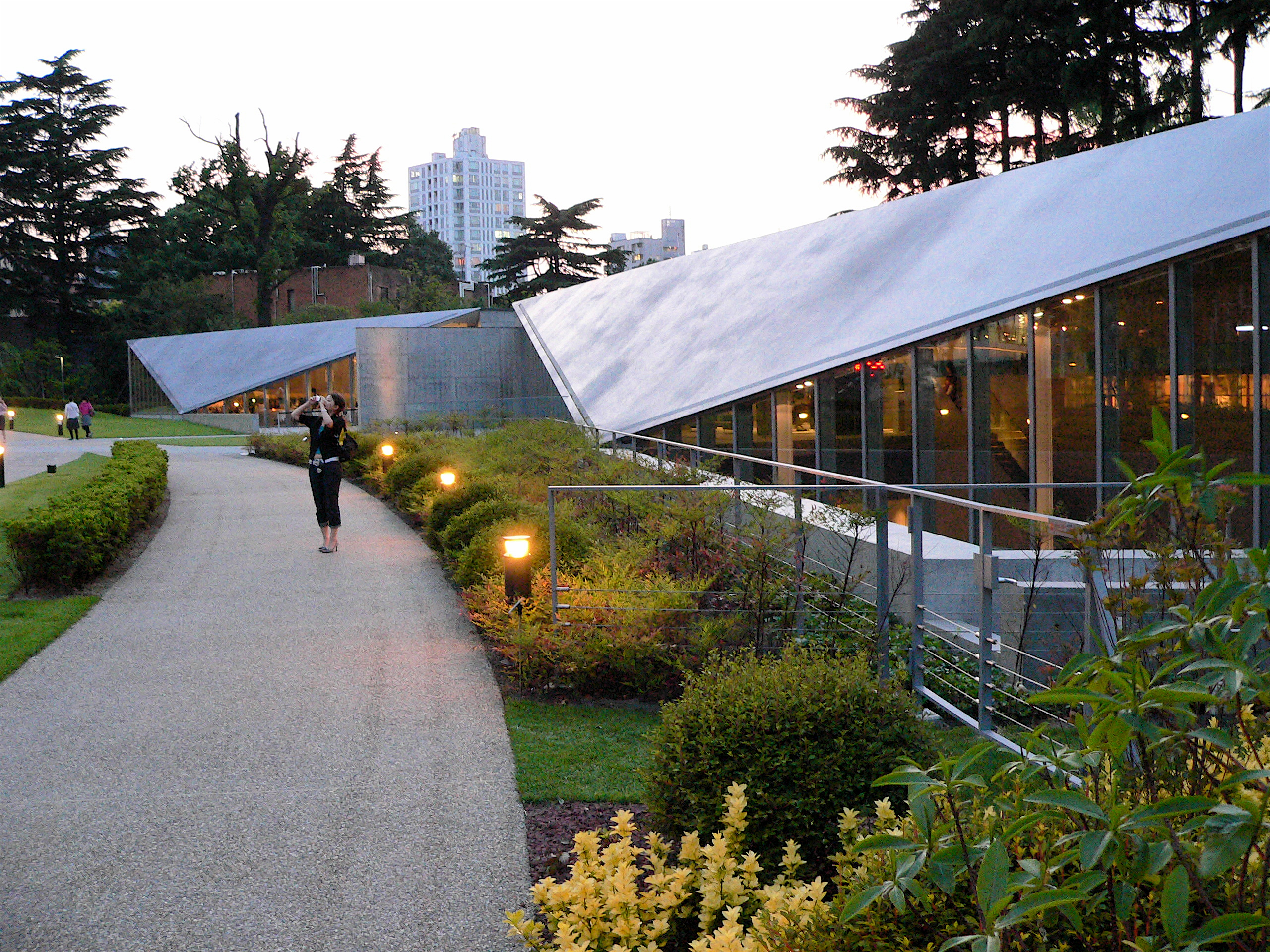 21_21 Design Site at Tokyo Midtown. Design by Tadao Ando